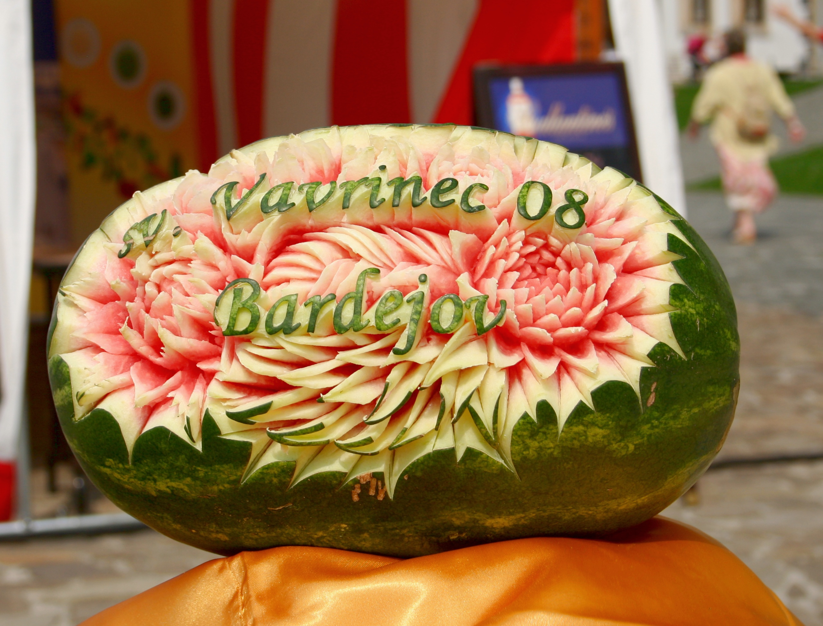 carved watermelon, Bardejov 2008, Slovakia